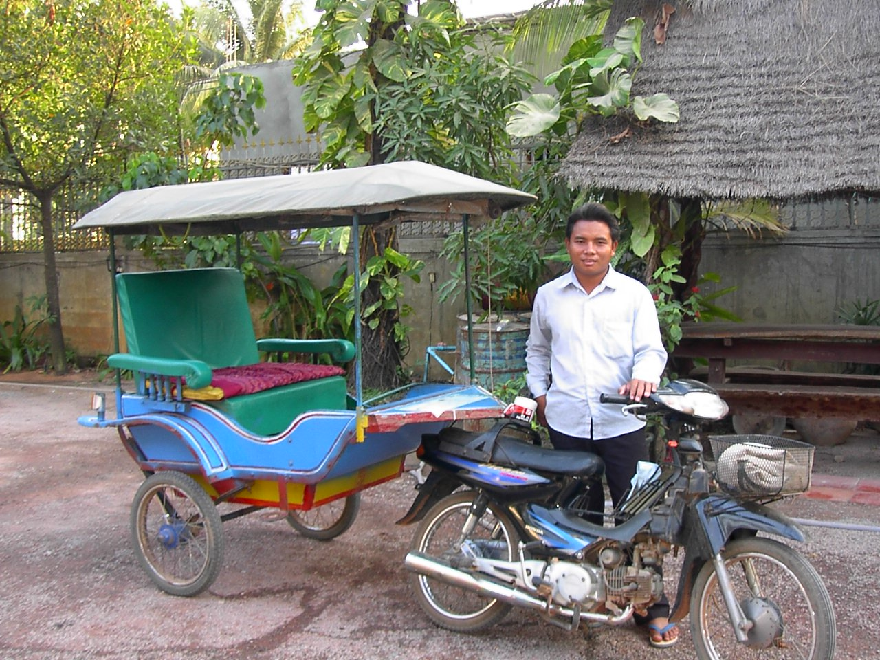 Photo by User:Adam Carr, January 2005